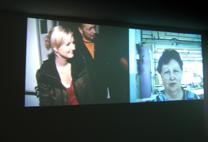 Exhibition view